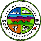 Official seal of the city of La Puente, California